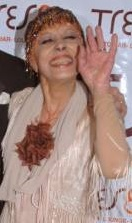 Betty Flores- actriz argentina